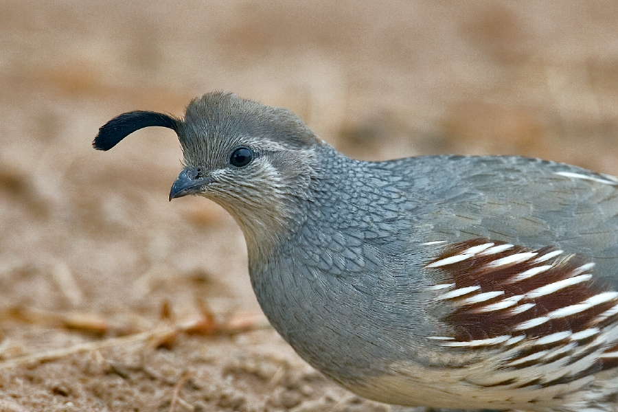 Callipepla gambelii - Gambel's Quail (Female), Visitor's Center, Salton Sea National Wildlife Refuge, California